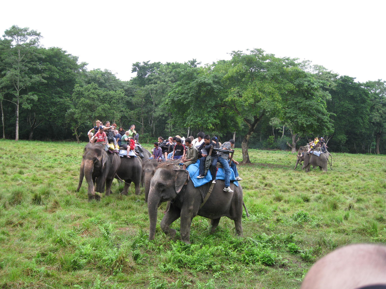 Chitwan National Park of Nepal.